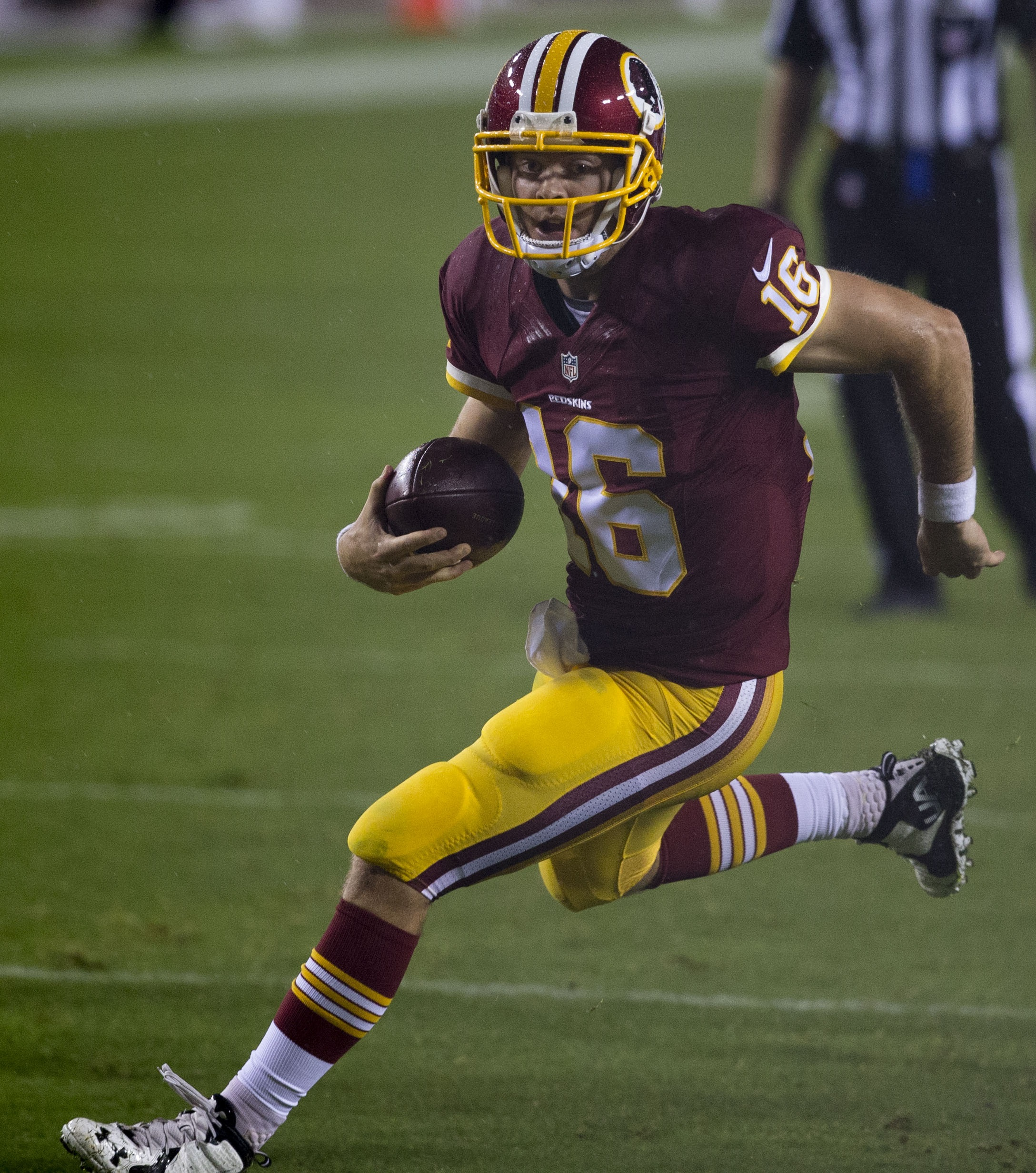 Lions at Redskins 8/20/15